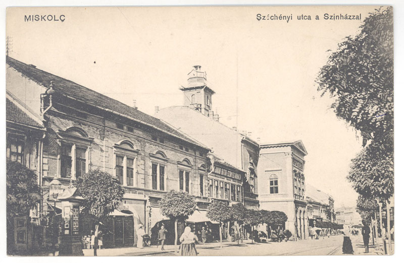 Miskolc, Széchenyi street. On the left: the National Theatre of Miskolc.